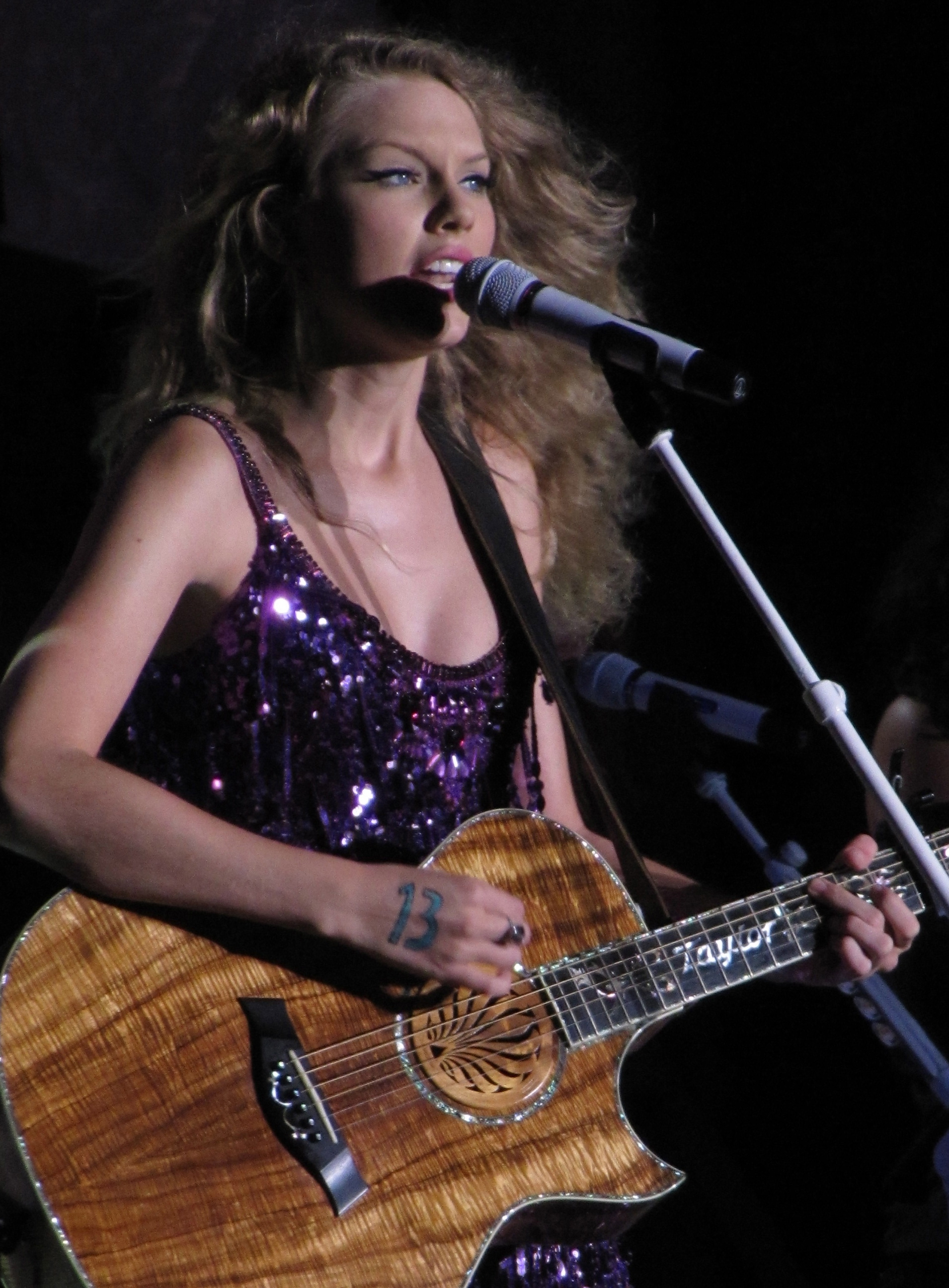 Taylor Swift performing at the Cavendish Beach Music Festival in Prince Edward Island, Canada.